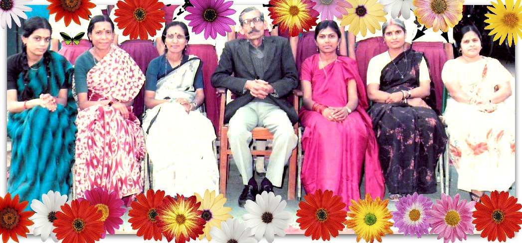 These are our Teachers of unforgettable memories